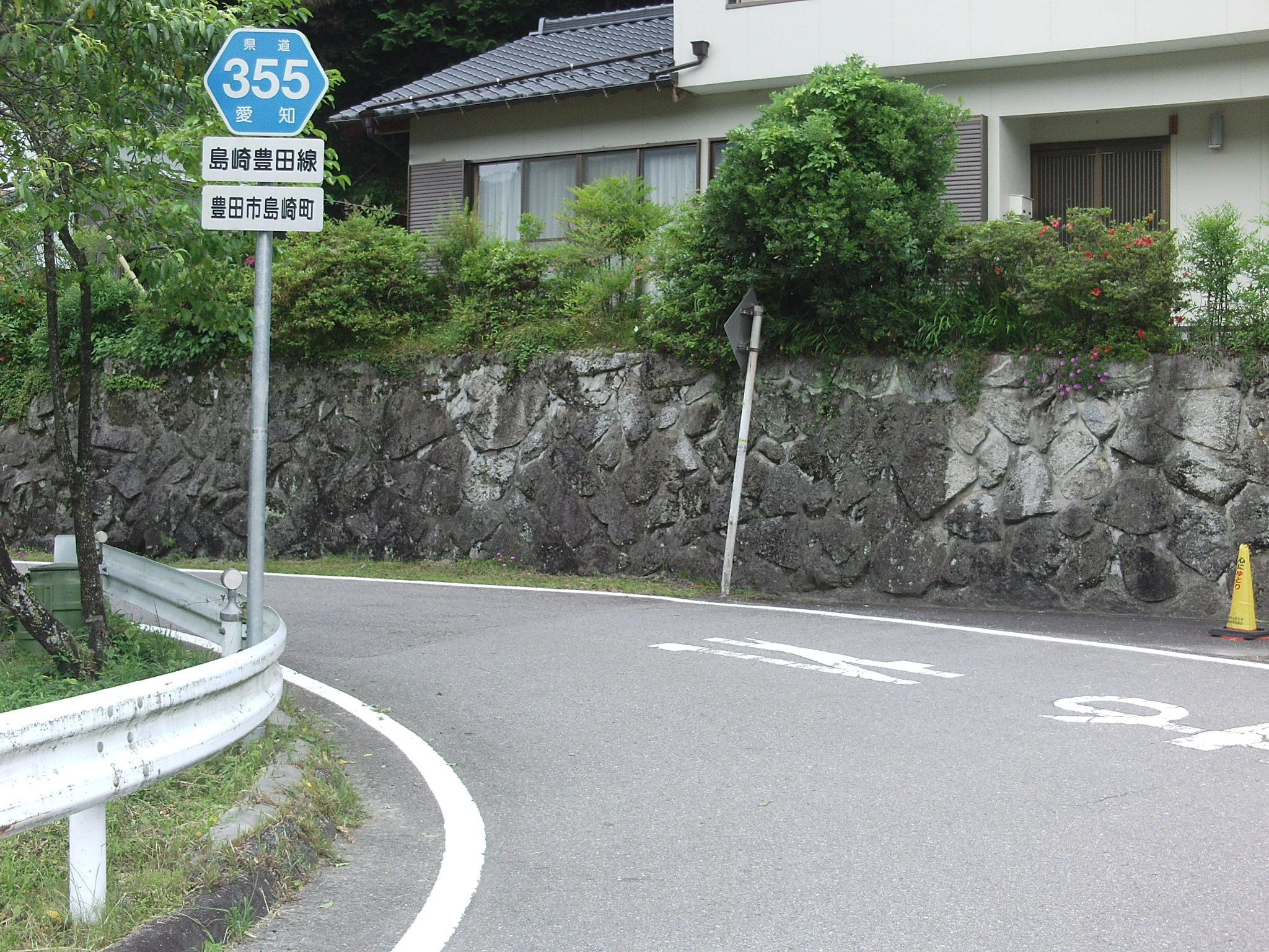 Aichi prefectural road No.355 in Shimasakicho, Toyota, Aichi.